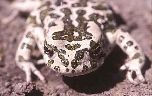 Female Bufotes cypriensis from Cyprus. This species was only scientifically described in 2019; formerly green toads from Cyprus were variously included in Bufotes viridis (aka Bufo viridis) or Bufotes variabilis (aka Bufo variabilis)